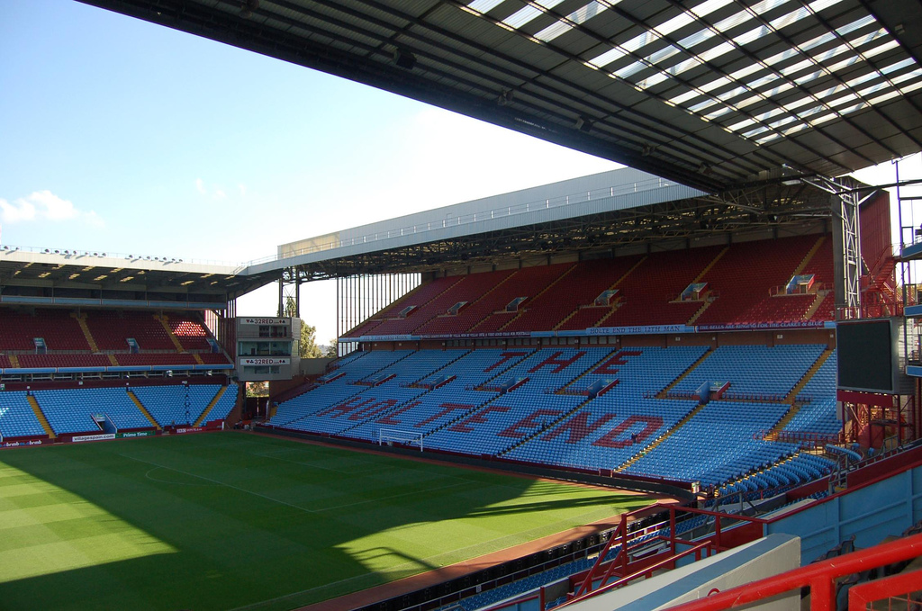 The Holte, as seen from the Director's Box.